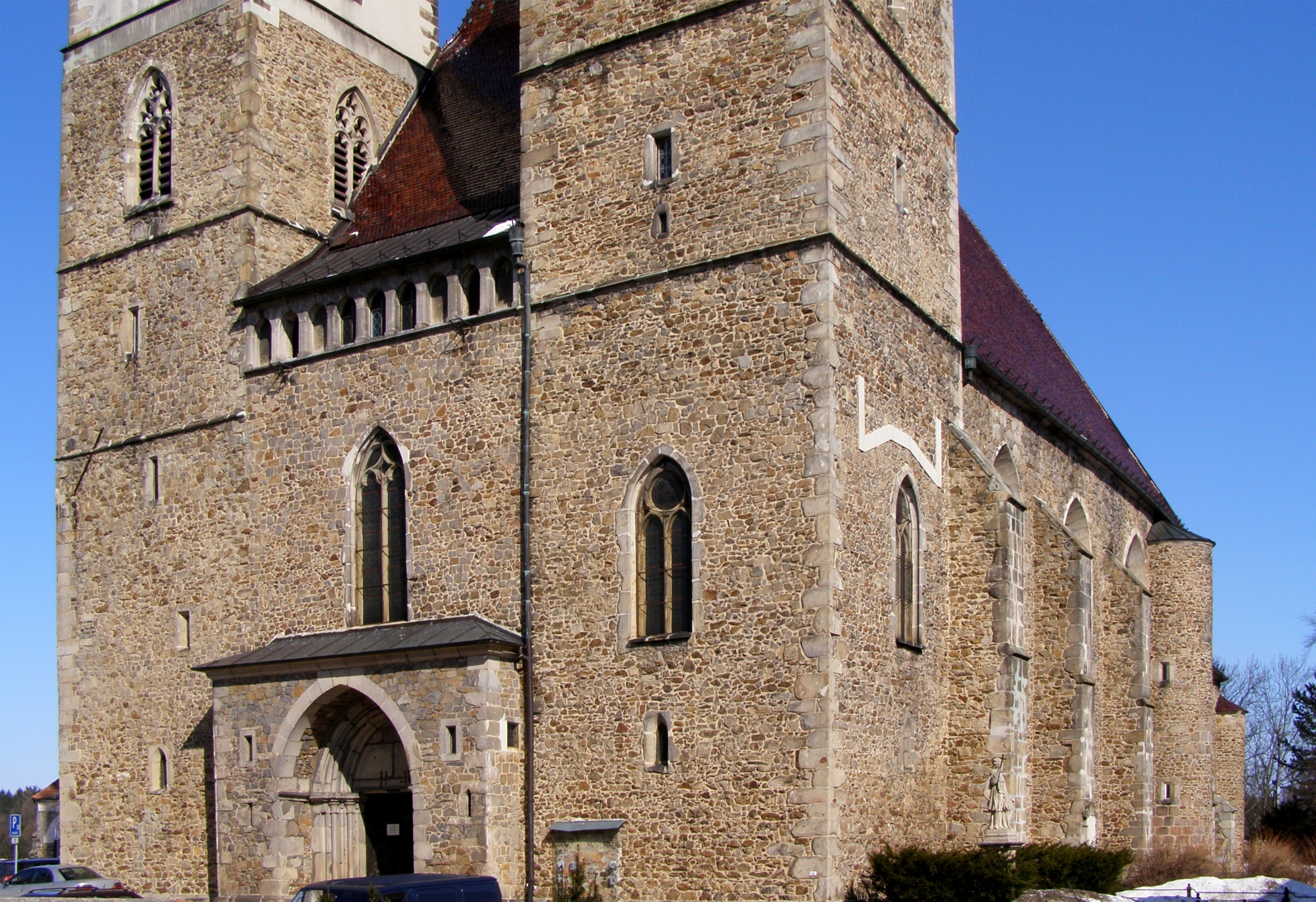 Jihlava. Church of Saint James